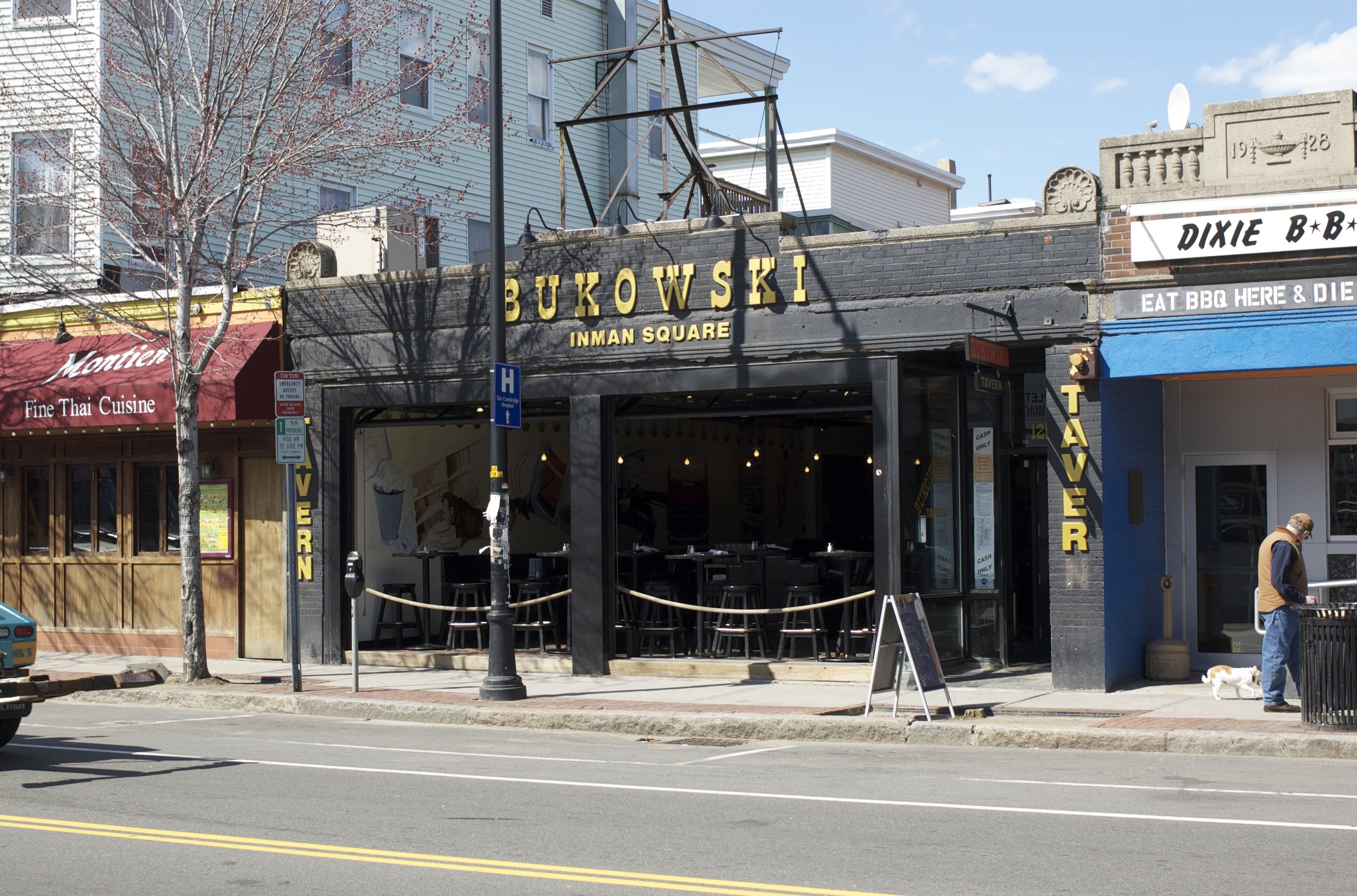 The Bukowksi Tavern on Cambridge St. in Inman Square, Cambridge, Massachusetts.